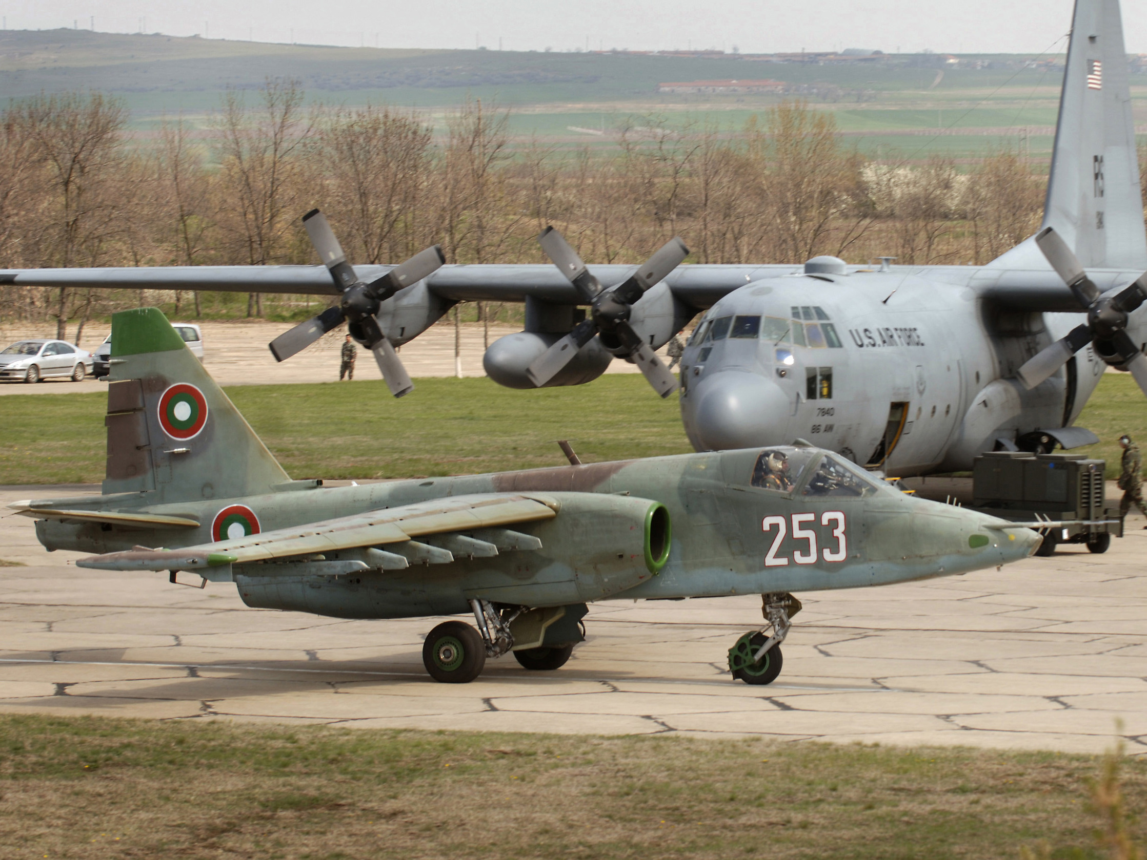 A Bulgarian air force SU-25 Frogfoot aircraft taxis past a U.S. Air Force C-130E Hercules aircraft at Bezmer Aviation Base, Bulgaria, March 31, 2008, prior to flying a sortie for exercise Thracian Spring 2008. The annual bilateral training exercise between the United States and Bulgaria provides training and improves interoperability between the two nations. (U.S. Air Force photo by Master Sgt. Scott Wagers) (Released)